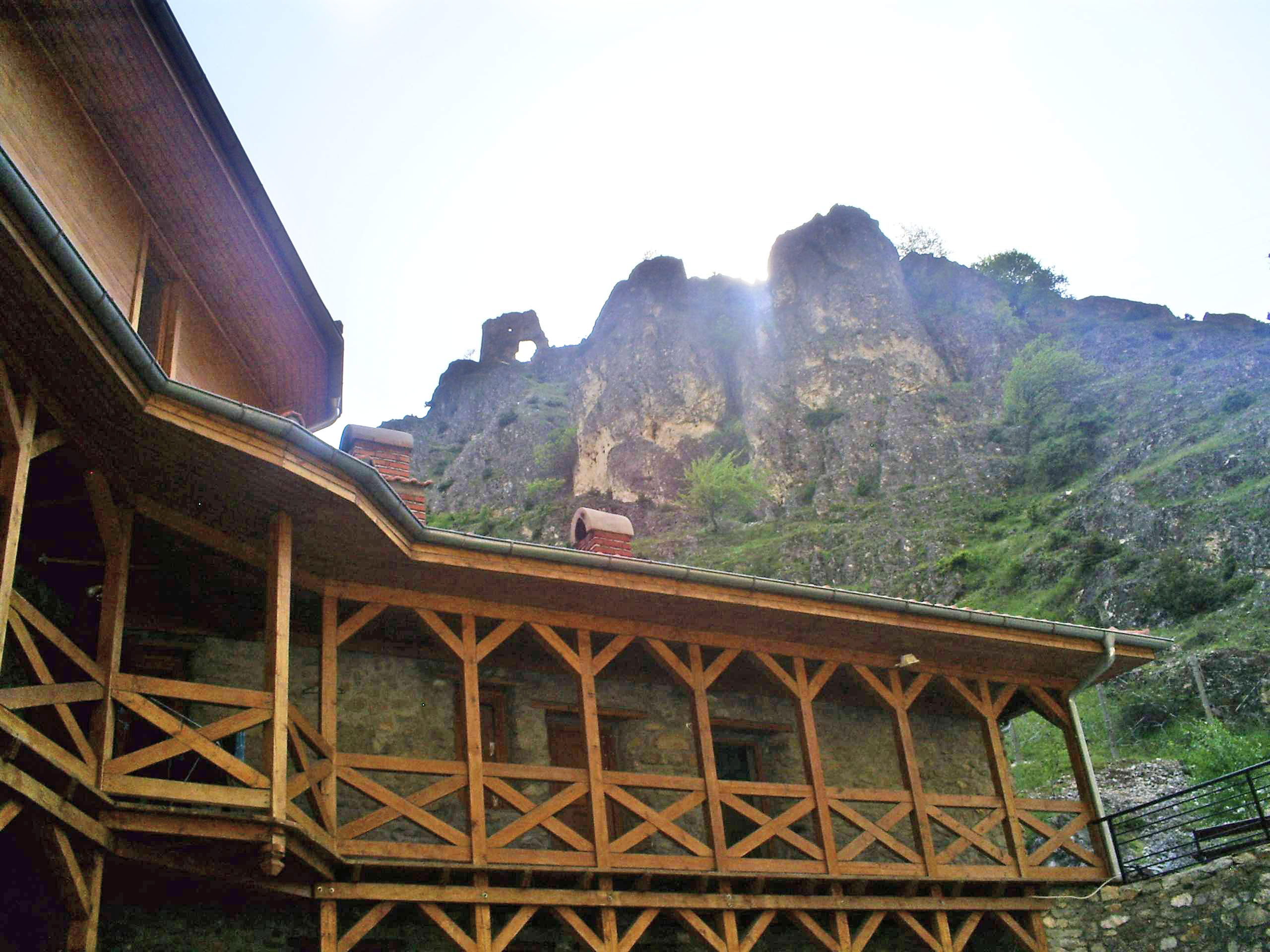 Konak and Višegrad fortress Donjon in Sveti Arhangeli near Prizren, Serbia.